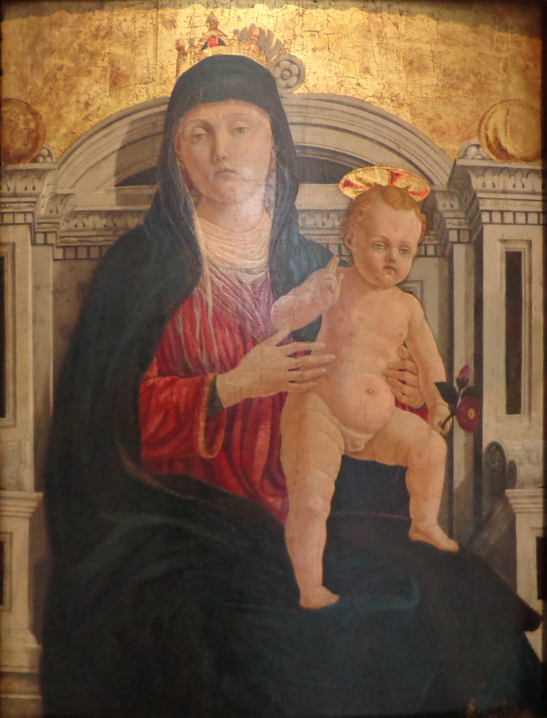 Bartolomeo degli Erri: Virgin with Child